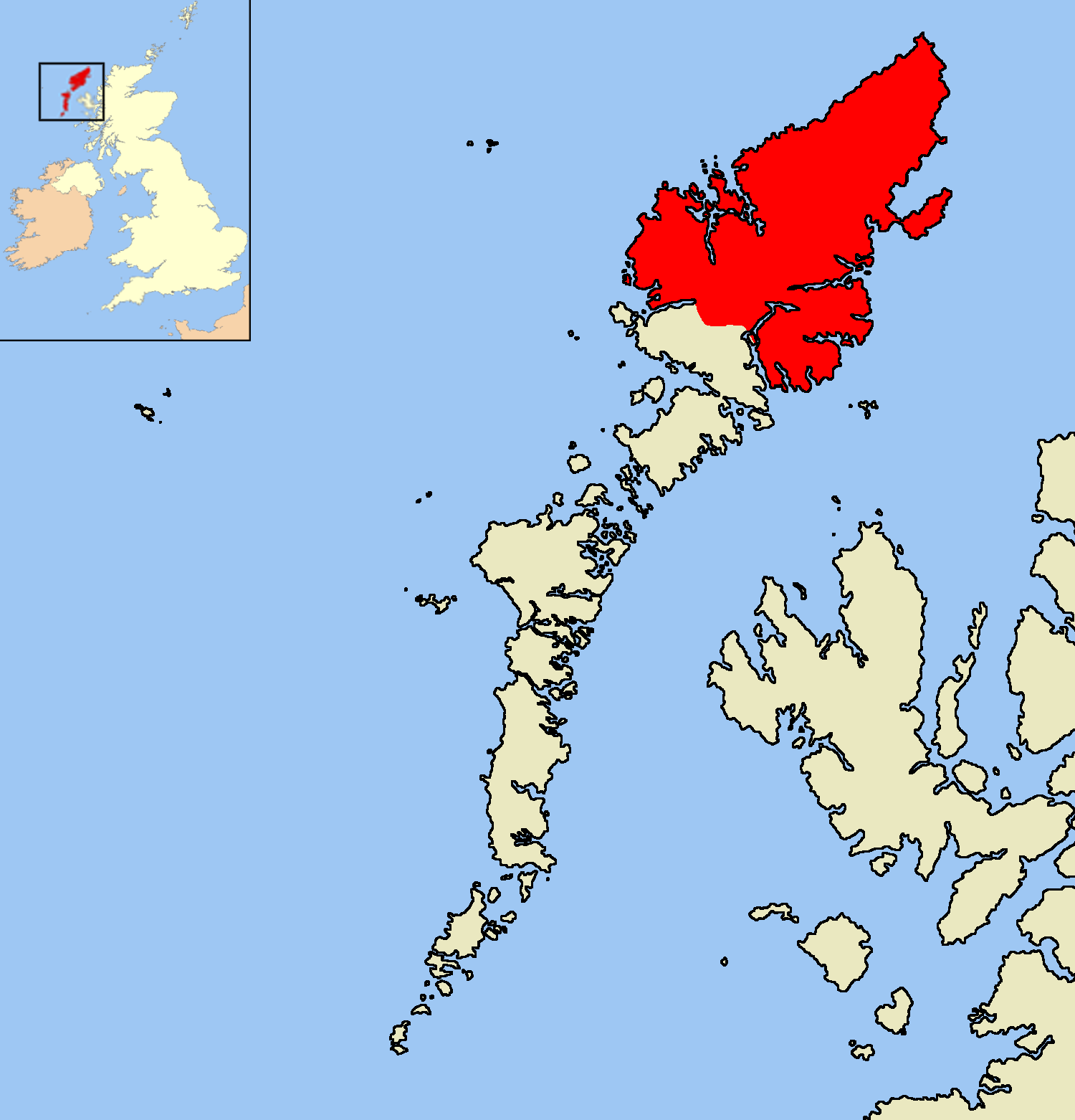 Lewis, the northern part of the Lewis and Harris island in the Outer Hebrides, Scotland.